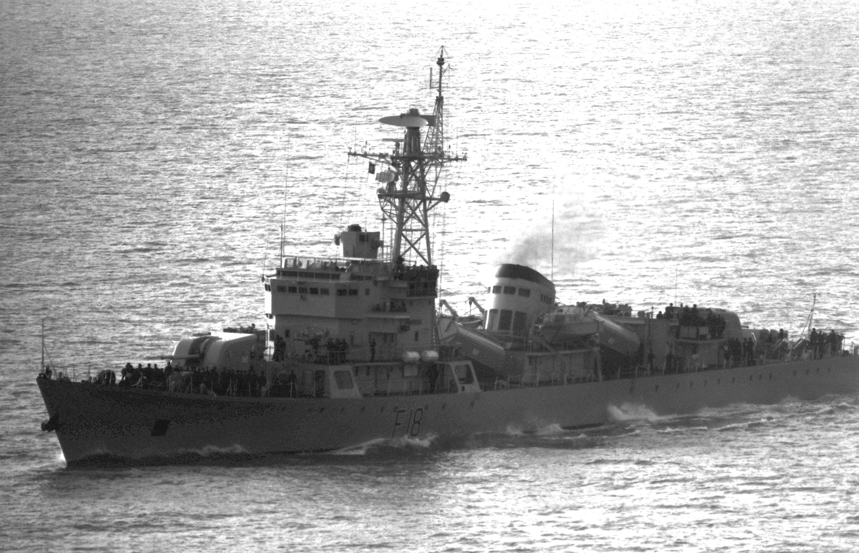 A port bow view of the Bangladeshi navy frigate BNS OSMAN (F-18) underway. The OSMAN Is a Chinese Jianghu II class frigate that was transferred to Bangladesh on September 26, 1989.